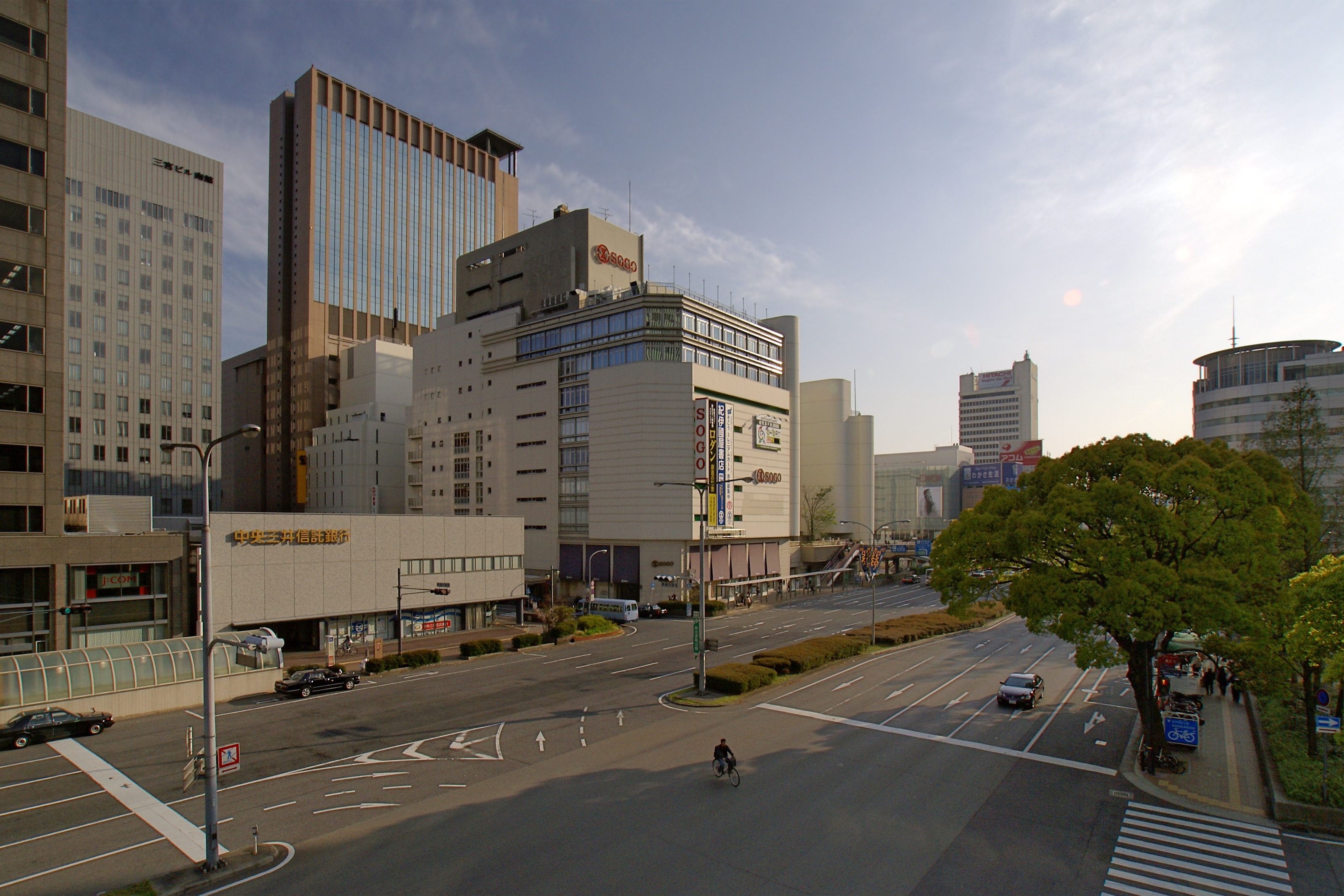 Sannomiya, Kobe, Hyogo prefecture, Japan